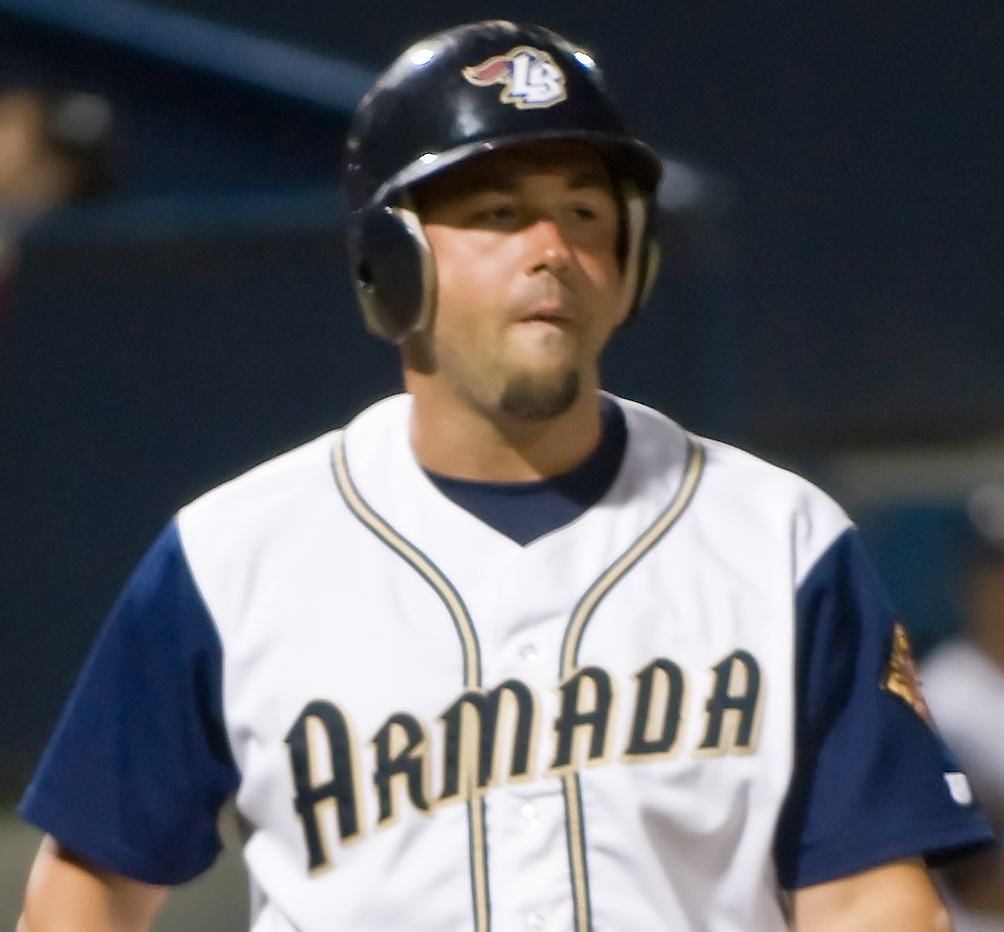 Chris Wakeland with the Long Beach Armada during a game against the Orange County Flyers at Blair Field in 2007